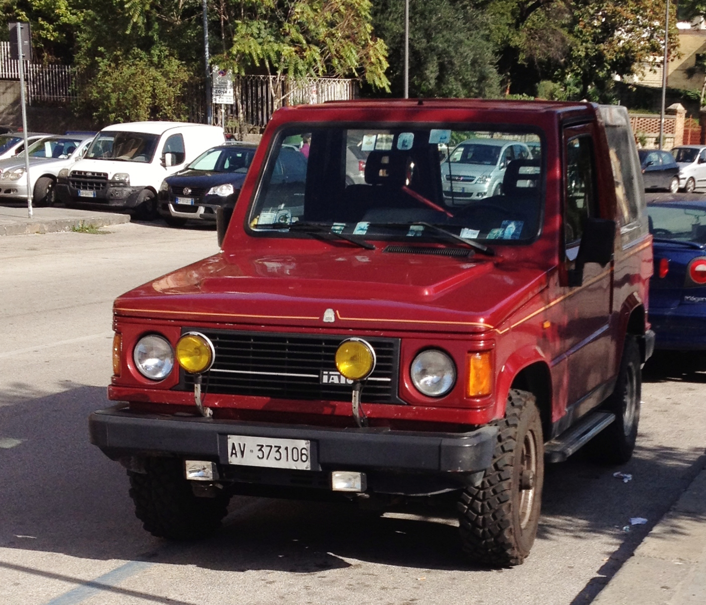 Iato off road 4x4